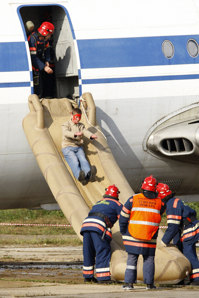 “Emergency drill at Sheremetyevo airport”. A large-scale emergency drill involving Emergency Situations Ministry and Federal Security Service units, doctors from the Moscow First Aid Center and airport personnel held at Sheremetyevo international airport.